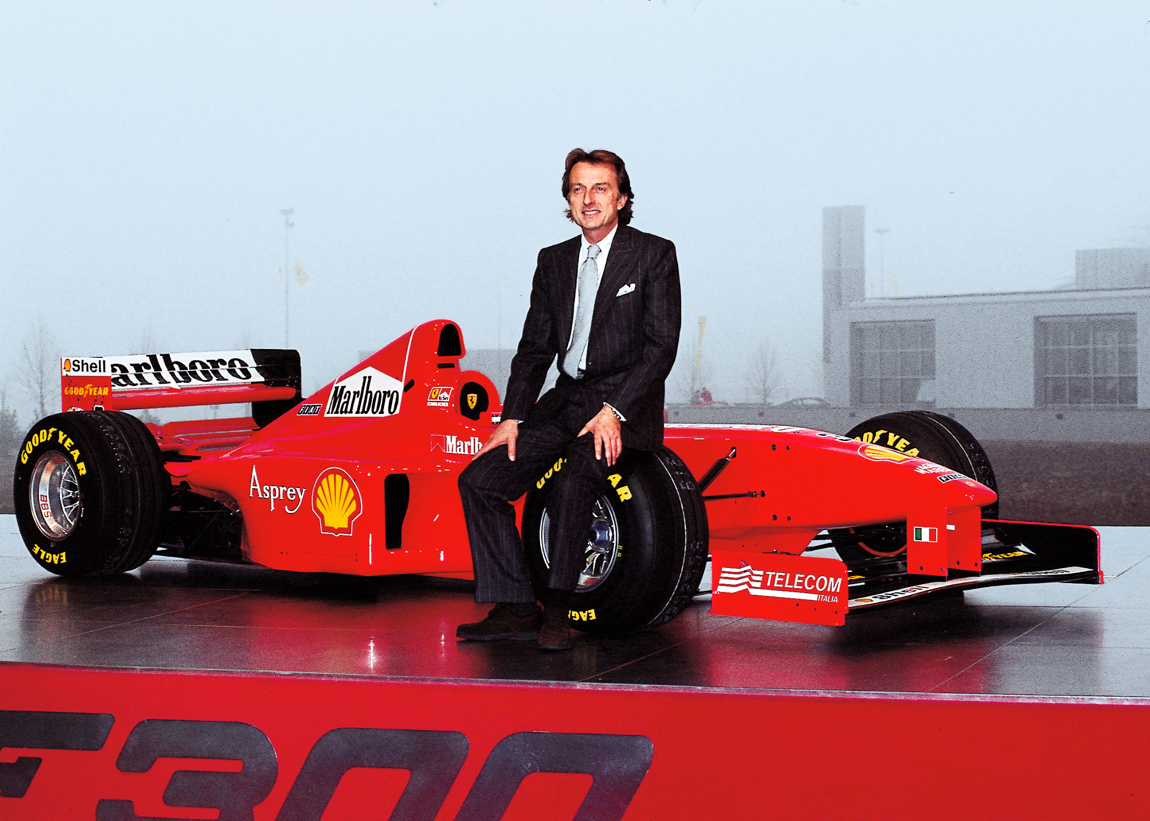 Luca Cordero di Montezemolo in Maranello at the Ferrari F300 presentation